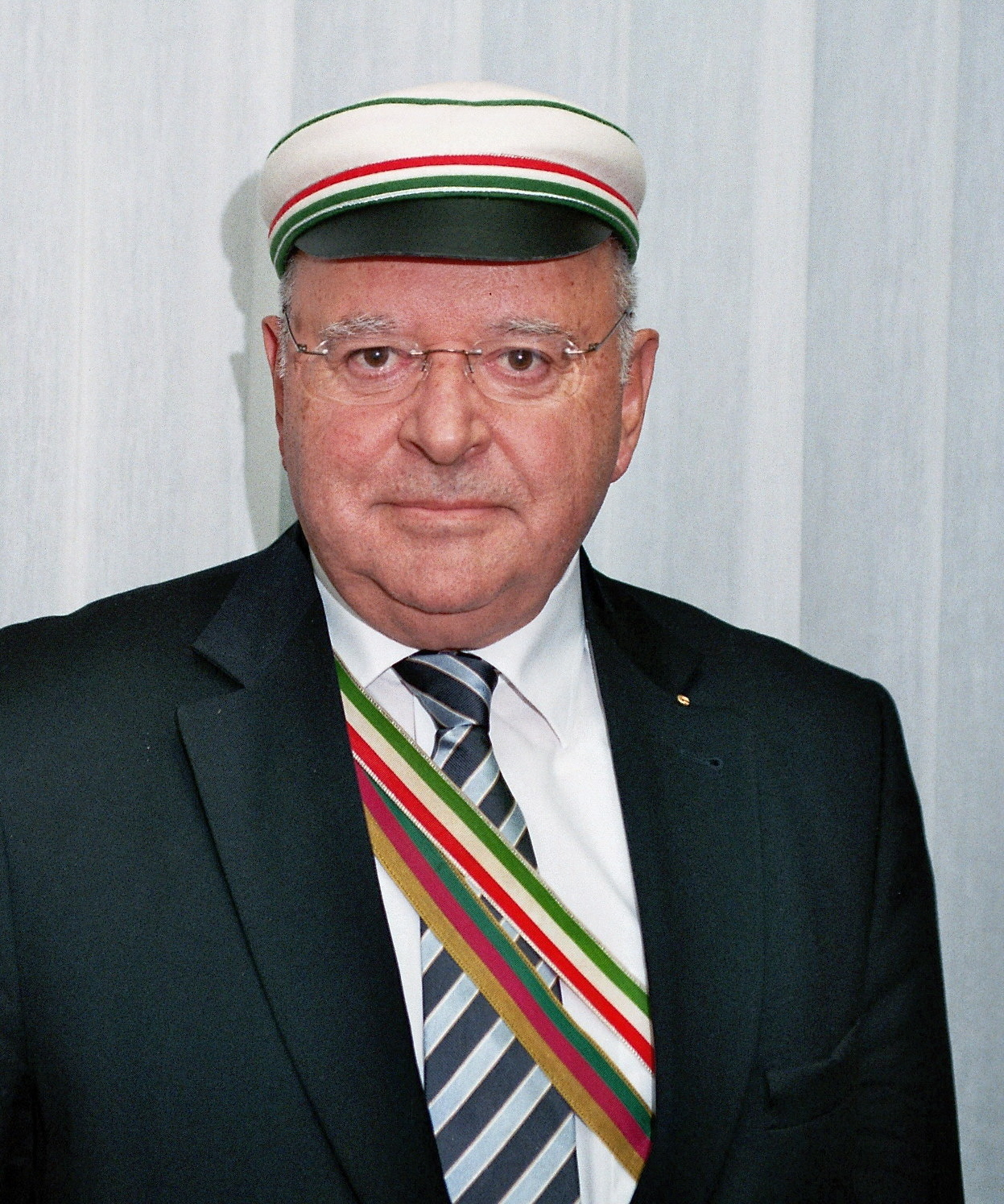 Klaus DeParade, German manager of the energy industry and academic alumni official